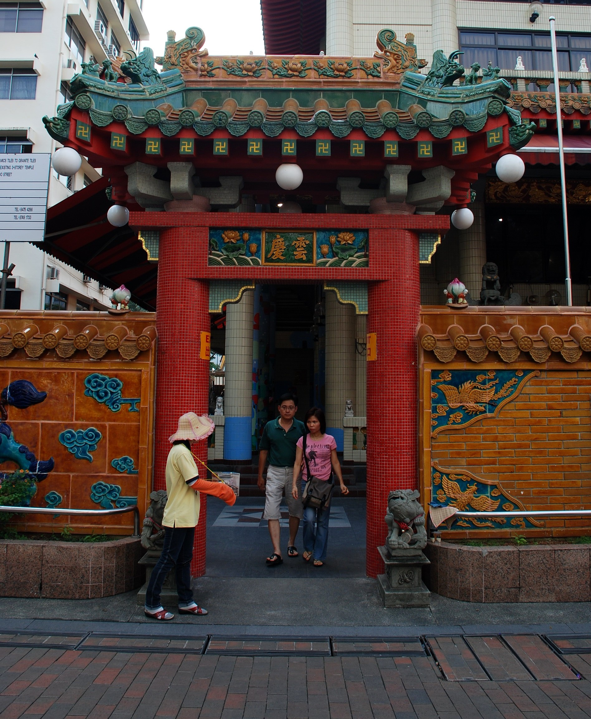 Side exit of Kwan Im Thong Hood Cho Temple at Waterloo Street, Singapore.